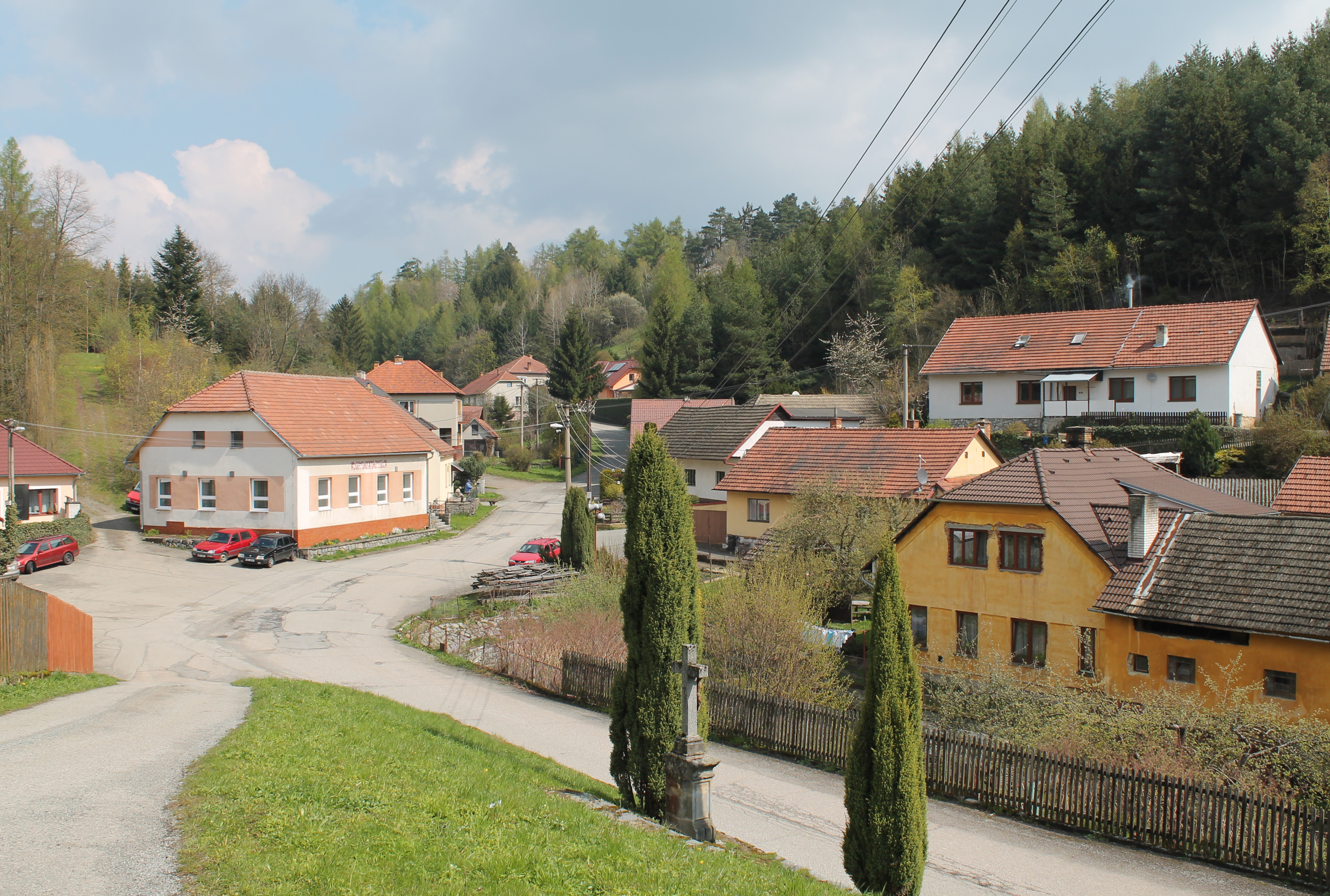 Petrov, Blansko District, Czech Republic This photograph was taken during a group photography field trip by Brno Wikipedians: 2017-04-29.